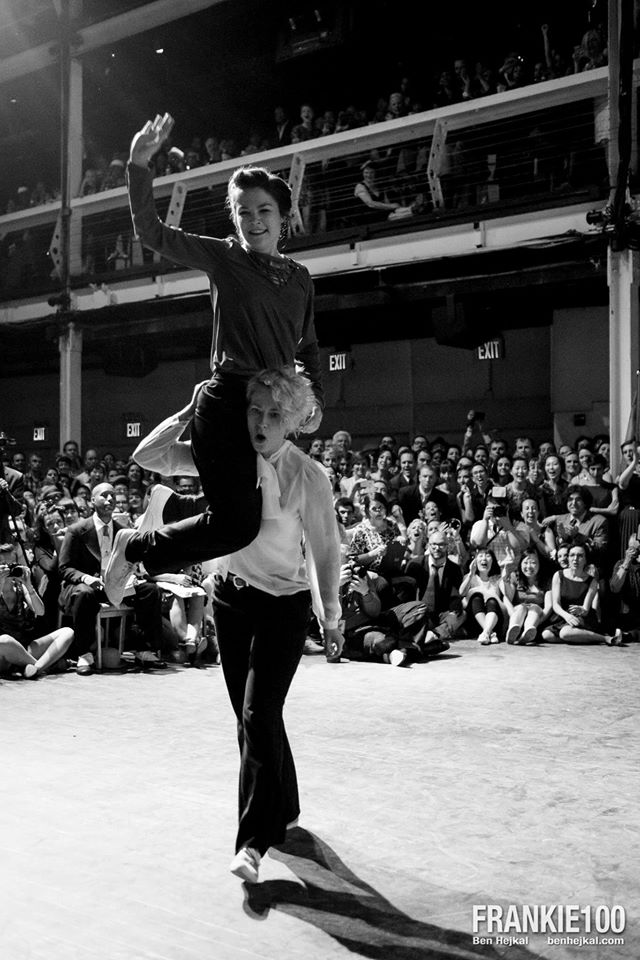 Emelie DecaVita & Rebecka DecaVita, Hellzapoppin' finals, Frankie100, New York City 2014.